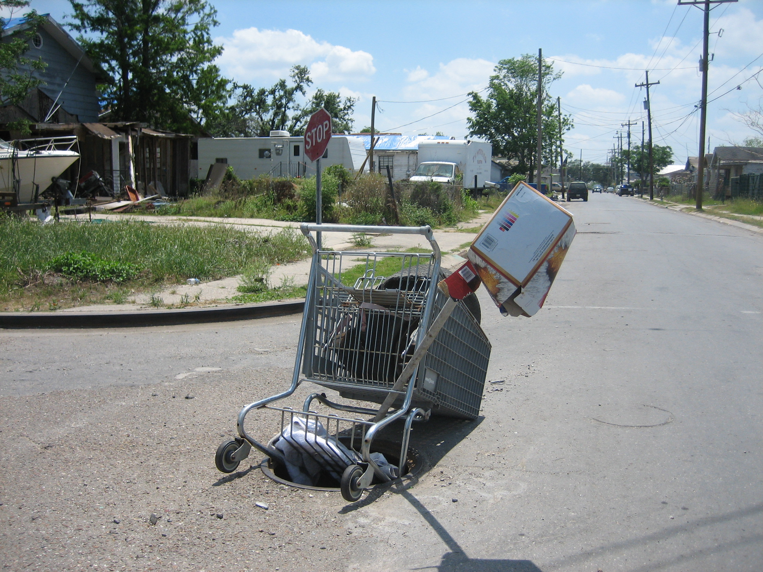 New Orleans after Hurricane Katrina: In formerly flooded residential neighborhood of Eastern New Orleans, a shopping cart and debris form an improvised marker for a sewage manhole missing a cover. FEMA trailer and blue tarped house roof visible in background.